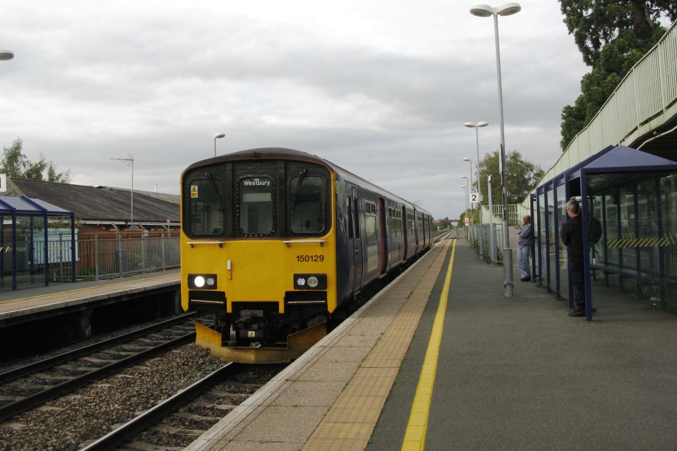 150129 arrives at Ashchurch with a Great Western Railway service from Great Malvern to Westbury by way of Gloucester and Bristol.